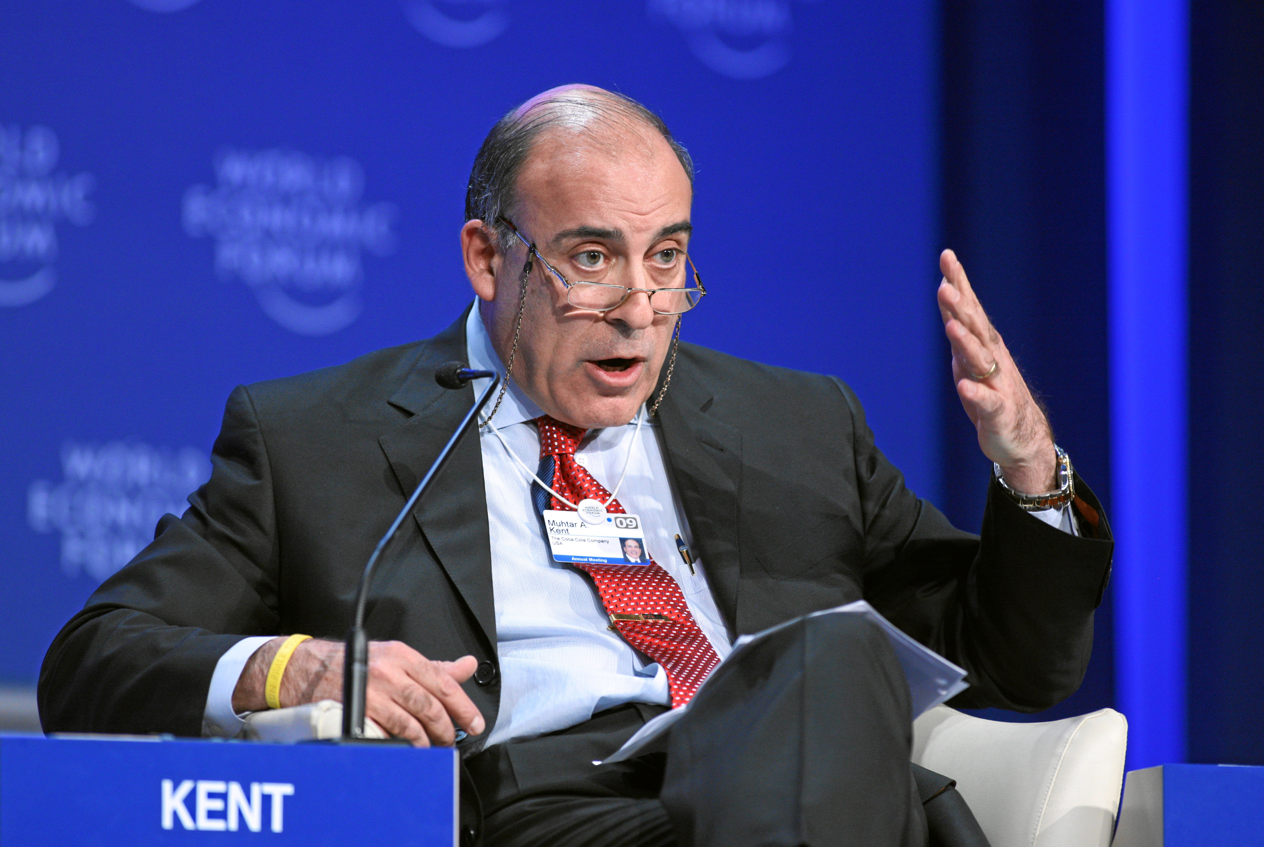 DAVOS-KLOSTERS/SWITZERLAND, 29JAN09 - Muhtar A. Kent, President and Chief Executive Officer, The Coca-Cola Company, USA; Co-Chair of the Governors Meeting for Consumer Industries 2009, speaks during the session 'The Global Compact: Creating Sustainable Markets' at the Annual Meeting 2009 of the World Economic Forum in Davos, Switzerland, January 29, 2009.